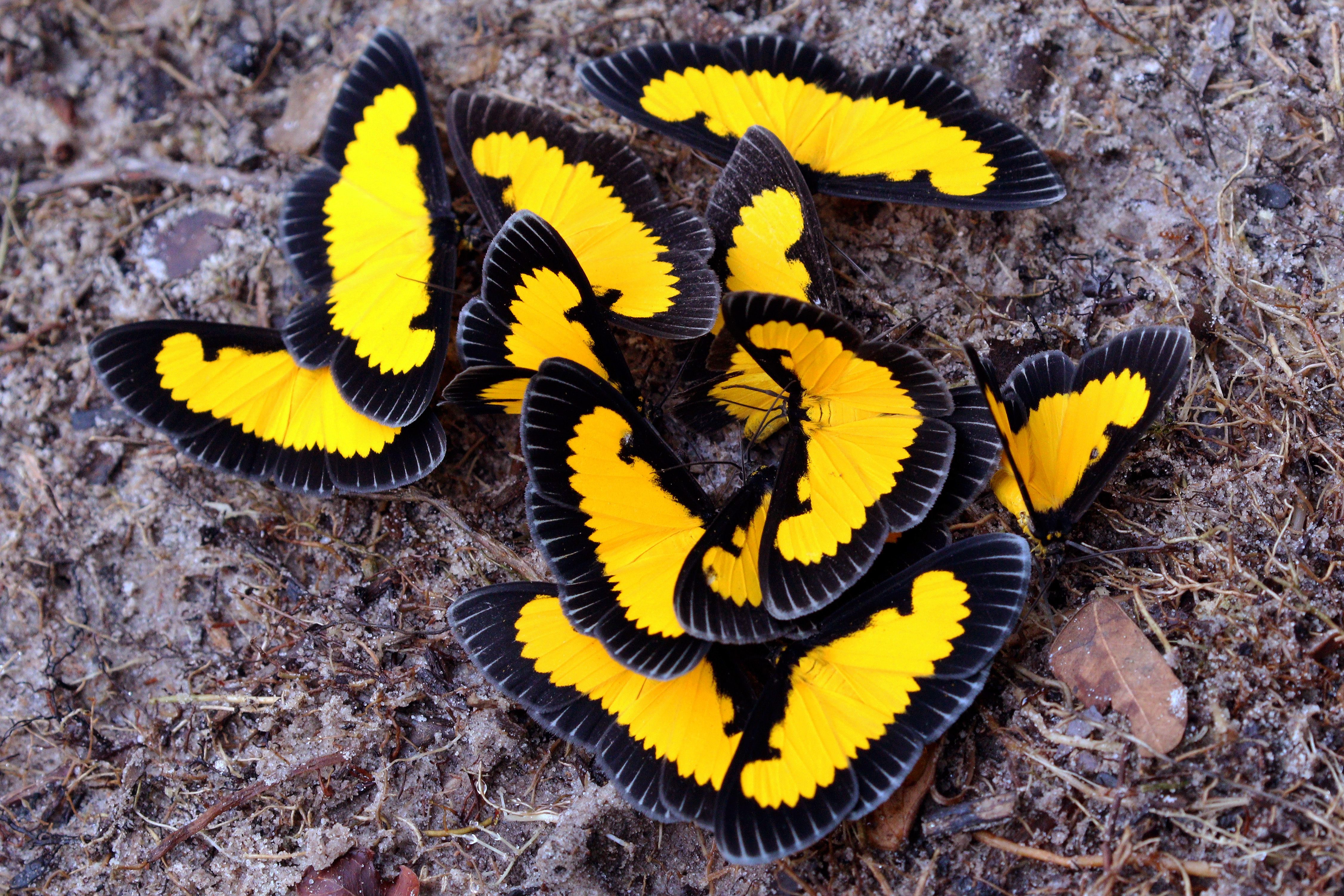 Saffron playboy moths (Xanthyris flaveolata), Cristalino River, Southern Amazon, Brazil